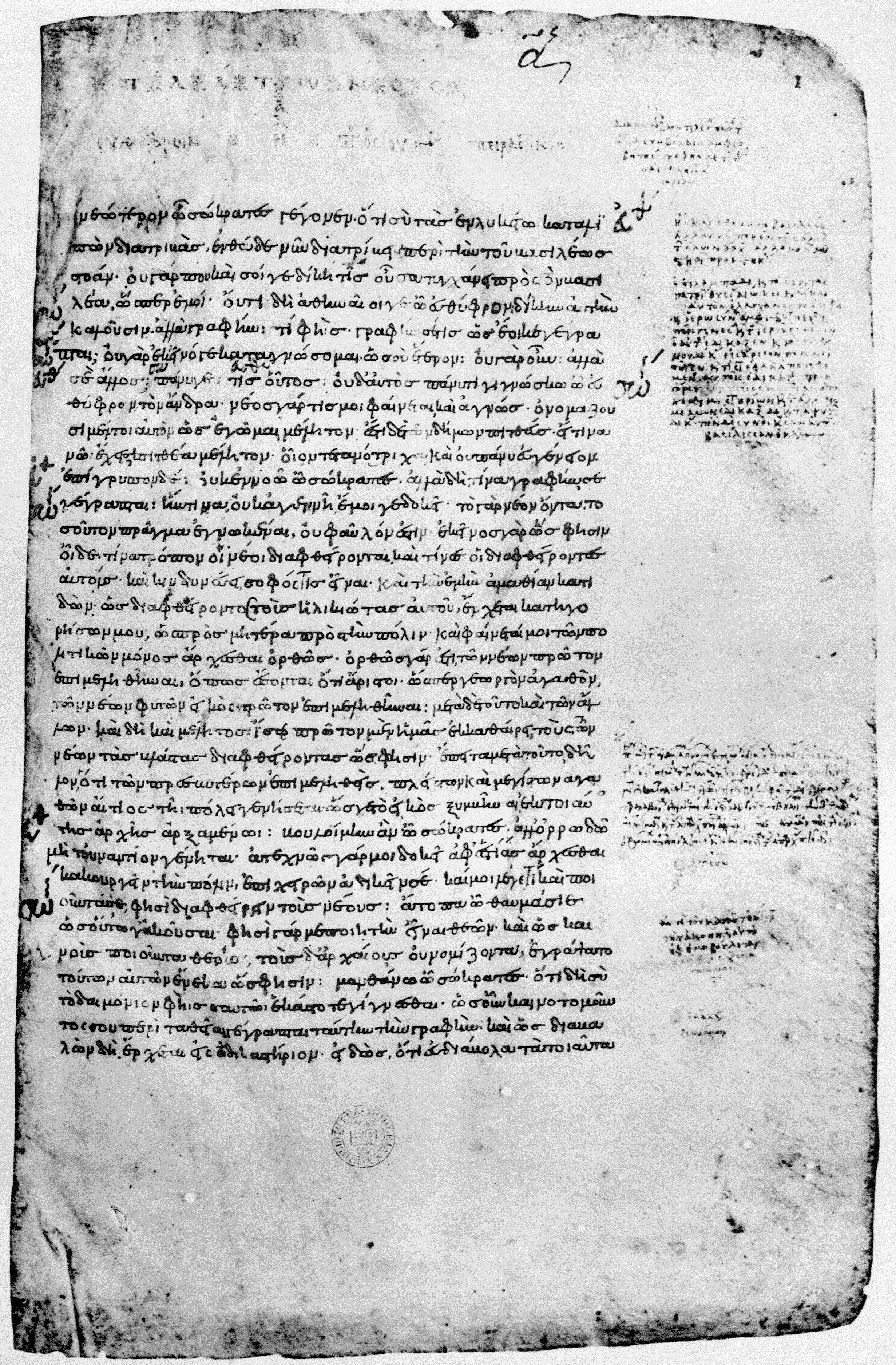 Page of the Codex Oxoniensis Clarkianus 39 (Clarke Plato). Dialogue Euthyphron.